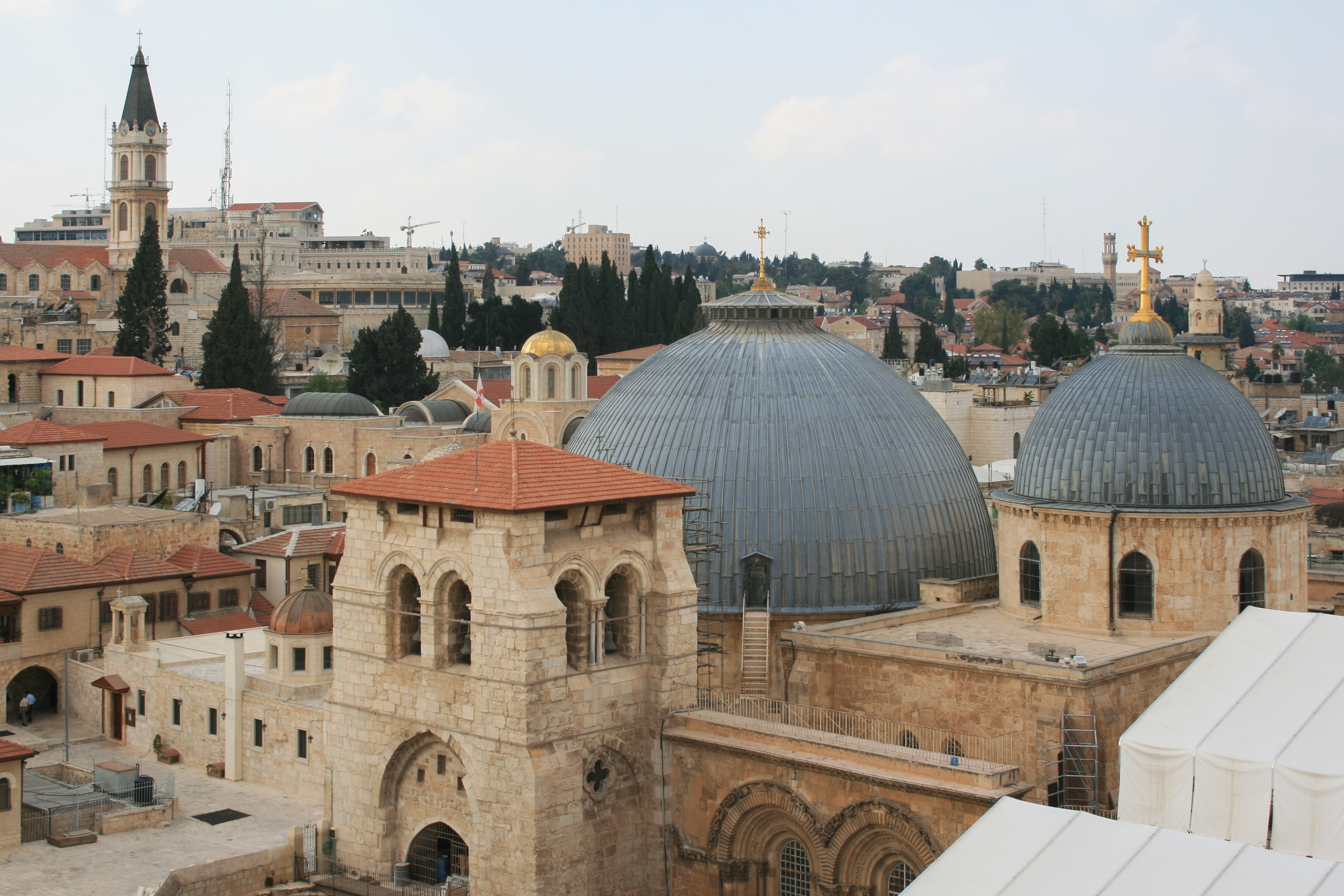 Holy Sepulchre - Dome exterior, Jerusalem